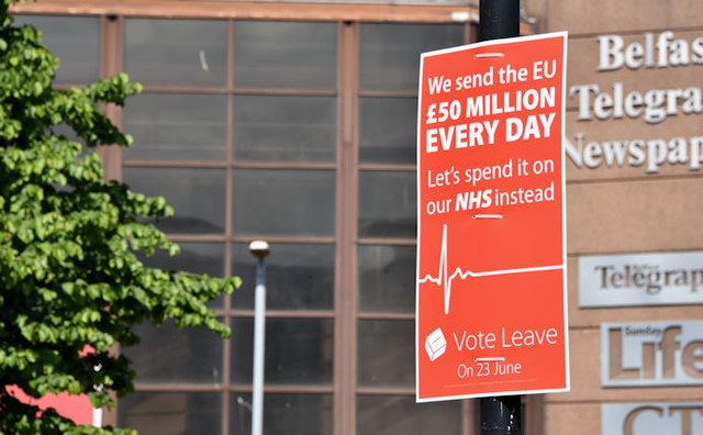 EU referendum "leave" poster, Belfast (June 2016). "NHS" refers to the National Health Service, the public health services of England, Scotland and Wales.